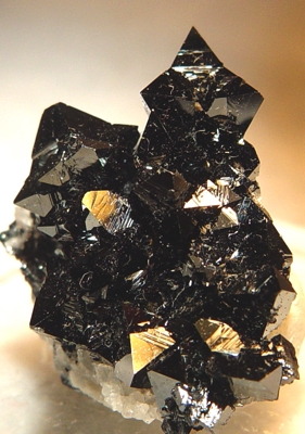 Hausmannite Locality: Wessels Mine (Wessel's Mine), Hotazel, Kalahari manganese fields, Northern Cape Province, South Africa (Locality at ) The camera didnt capture the sharpness and mirror luster of these superb, intergrown hausmannite crystals to 0.75 cm. There is a bit of contrasting matrix at the bottom for accent. A fine cluster! Ex. Charlie Key Collection. 3 x 2.2 x 1 cm